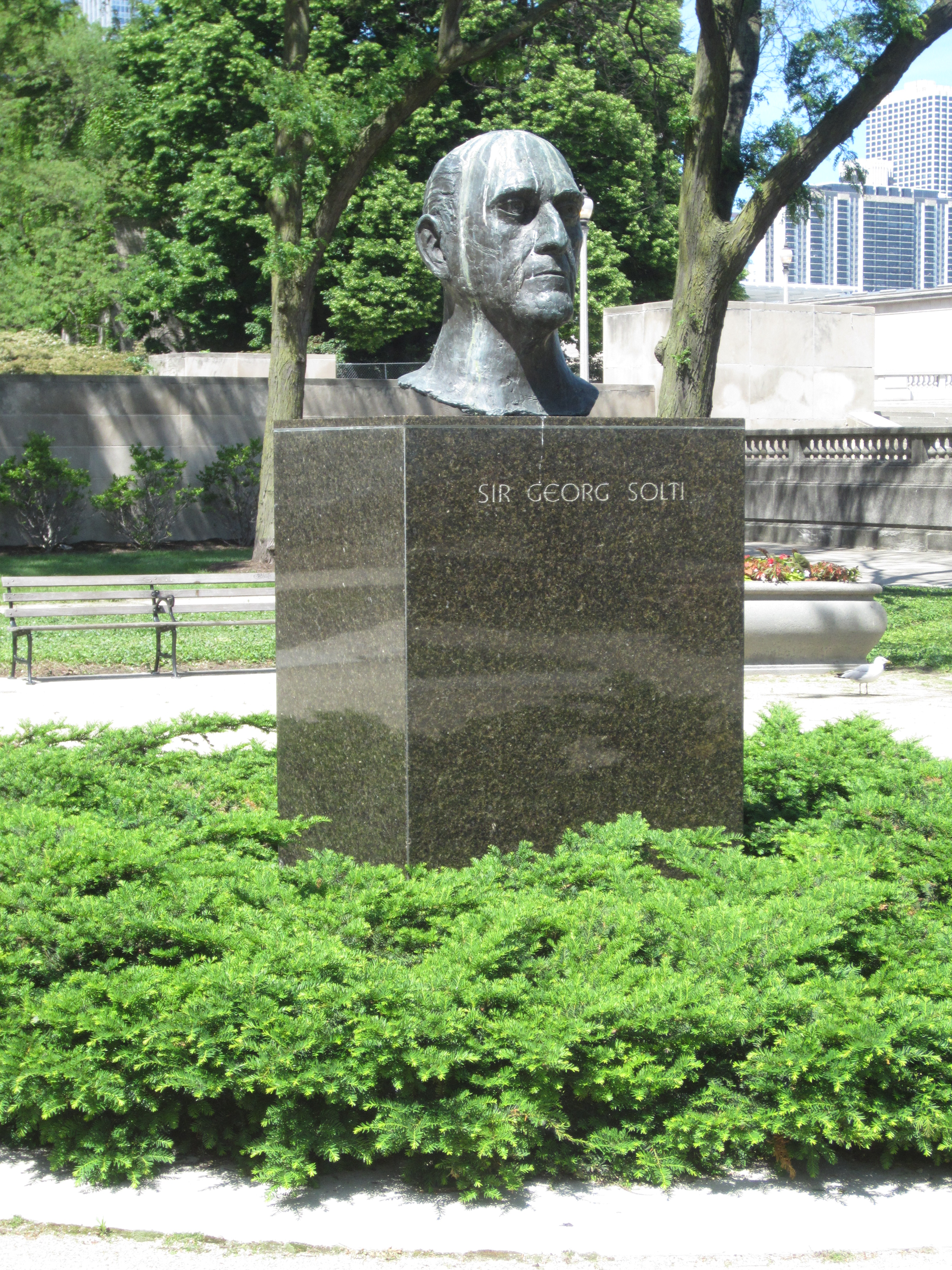 Chicago, Illinois, June 2015